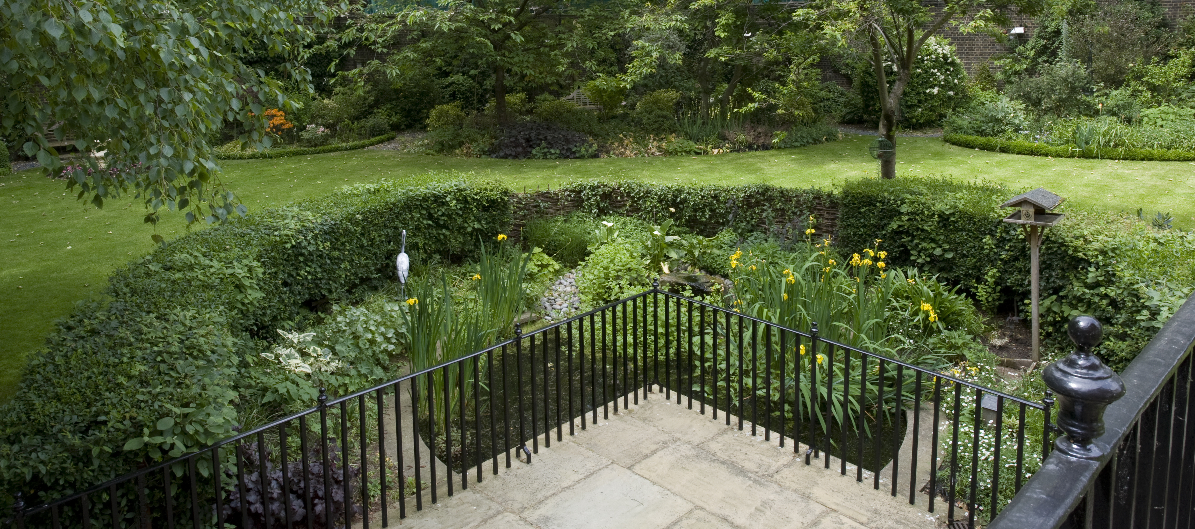 On Saturday 9 June 2012 the garden at 10 Downing Street was opened to 25 members of the public as part of Open Garden Squares Weekend. Take a virtual tour of the 10 Downing Street garden.